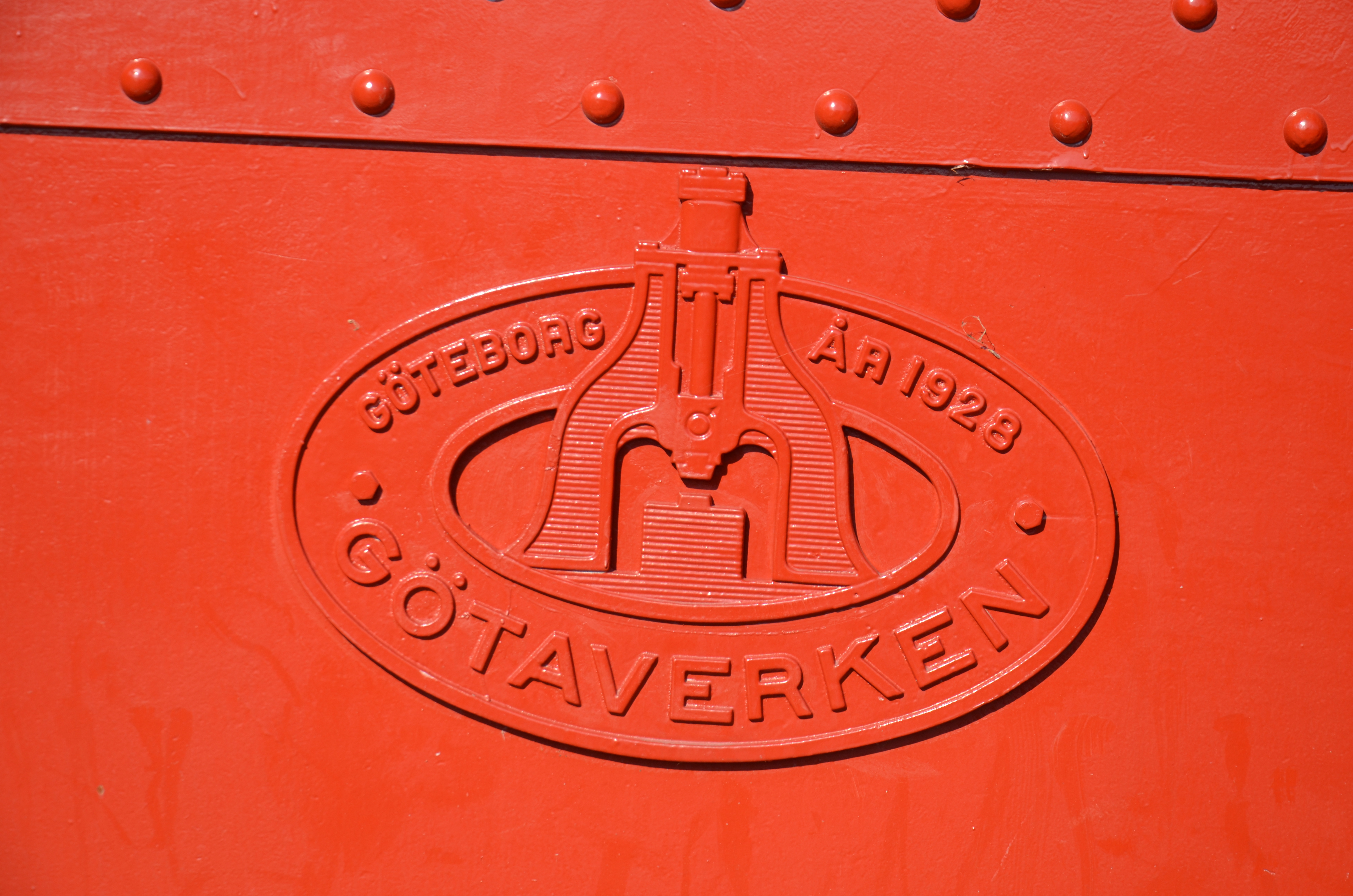 The logo of Götaverken on an old railway bridge in Halmstad.